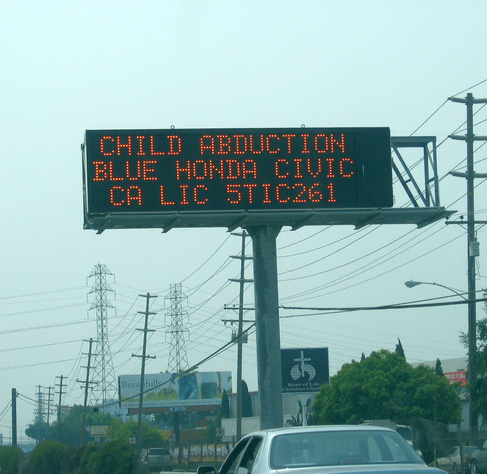 AMBER Alert highway sign alerting motorists to a suspected child abduction in Northern California.